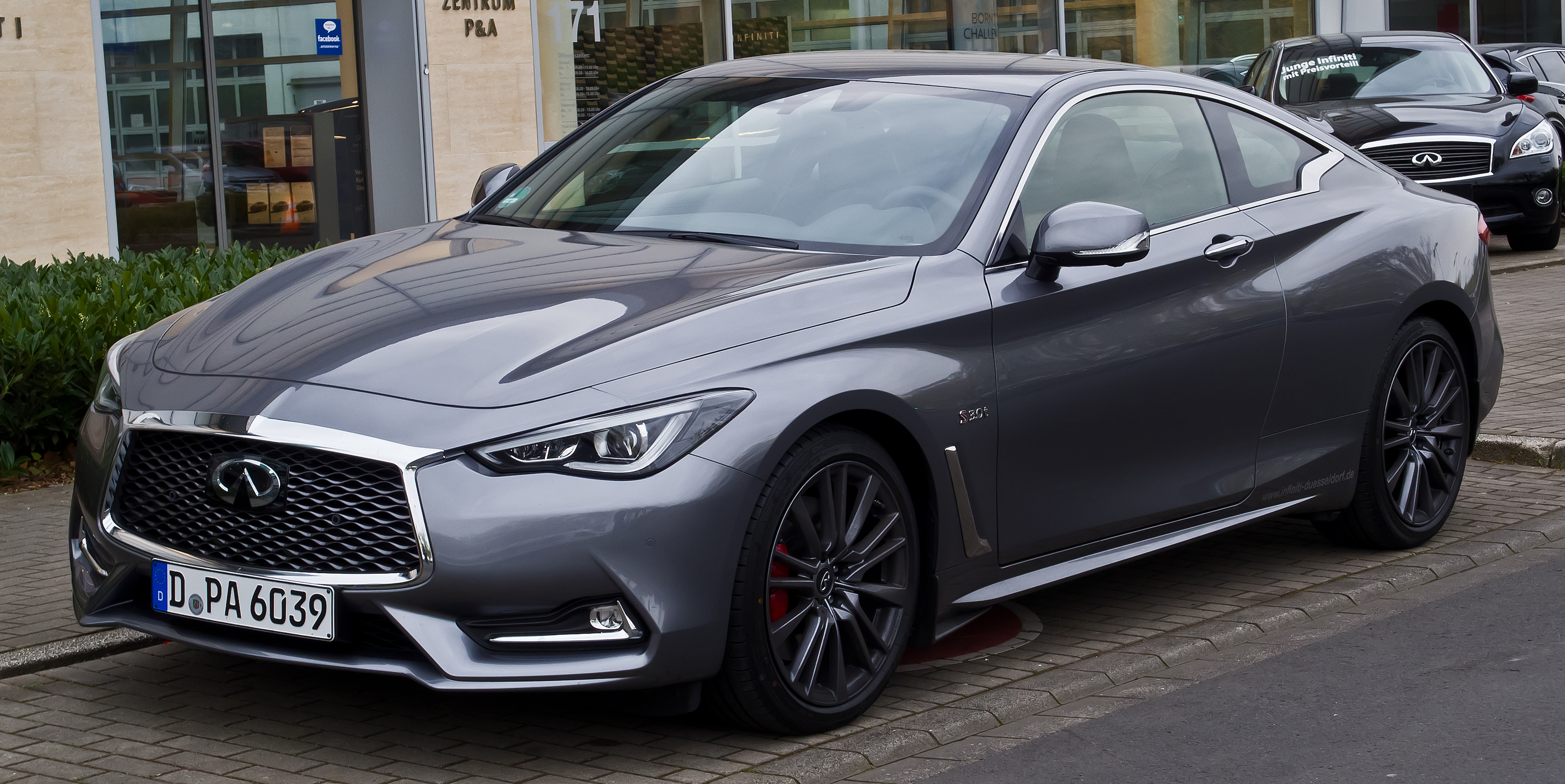 Infiniti Q60S 3.0t AWD Sport Tech (V37)